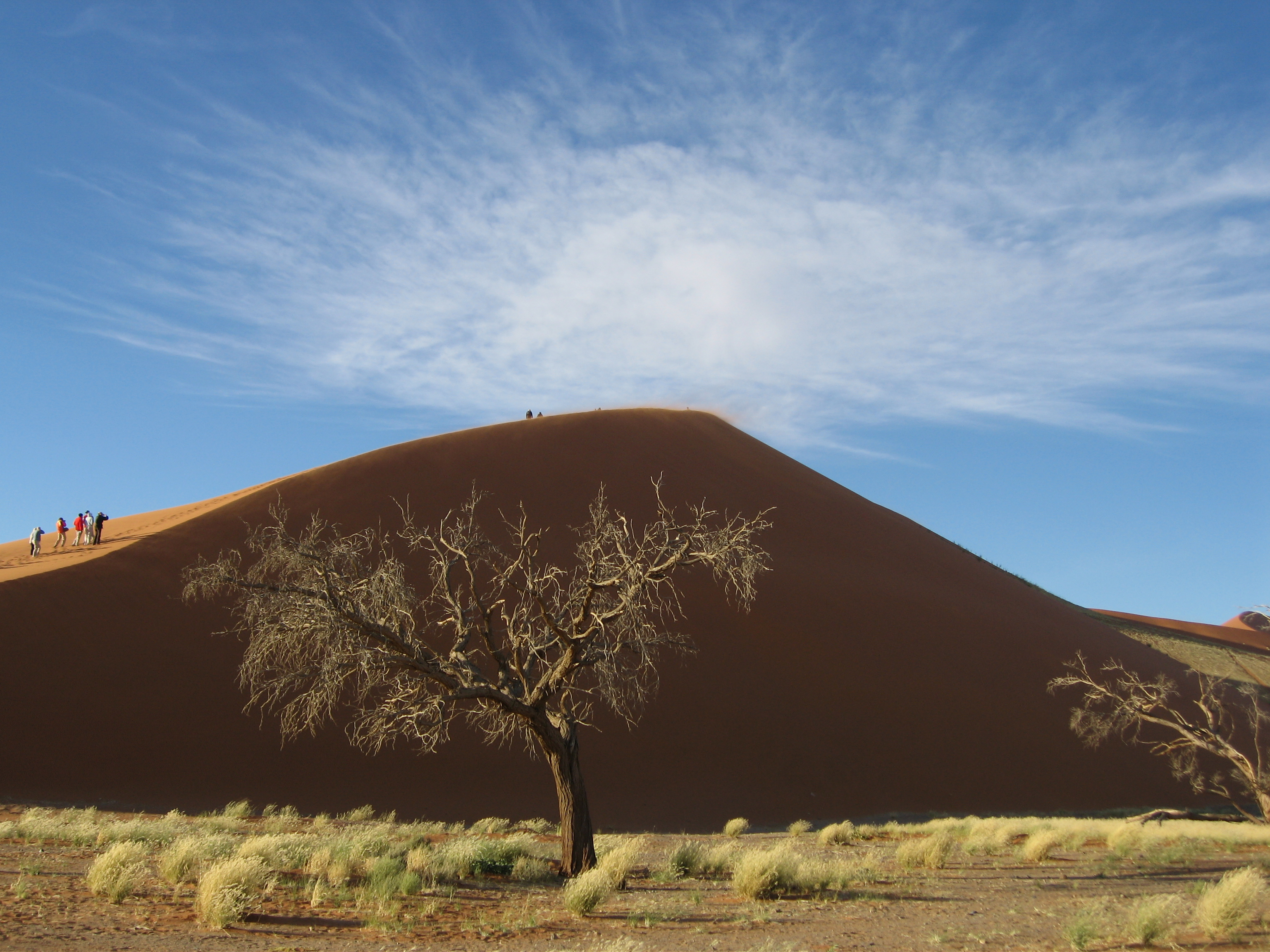 The Namib Desert at Sossusvlei.